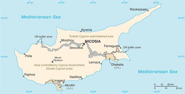 Cyprus map from CIA World Factbook (since 4 July 2010), converted from original GIF format